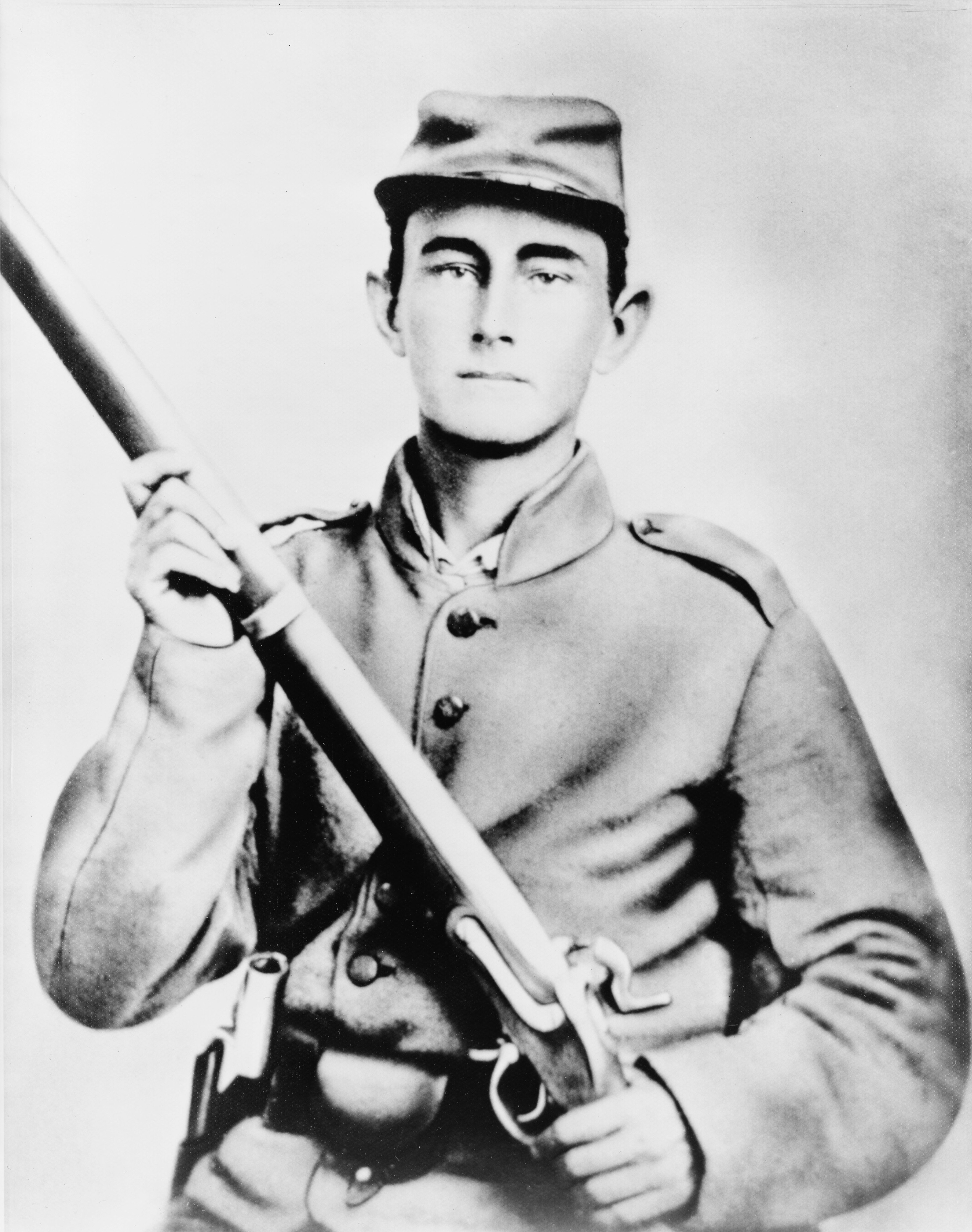 Title: Enoch Hooper Cook, Jr., Pvt, Co. H. 38th Alabama Infantry, C.S.A., half-length portrait, facing front holding rifle Physical description: 1 photographic print. Notes: Copy photo made by LC in 1961 from unidentified source.; Forms part of: Civil War Photograph Collection (Library of Congress).; Written on negative sleeve: Pvt. & Sgt. Enoch Hooper Cook, Jr., Co. H. 38th Ala. Inf. C.S.A., one of ten brothers=CSA. Original in possession of Mrs. Rebecca Springer, Union Springs, Ala.; Title devised by Library staff.